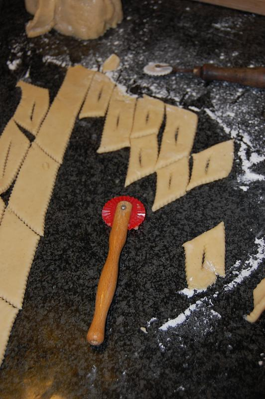 Klejner (Danish) is a small cookie boiled in oil or fat.